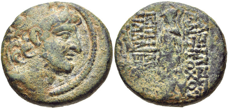 200, Lot: 178. Estimate $100. Sold for $850. This amount does not include the buyer’s fee. SELEUKID KINGS of SYRIA. Antiochos XI Epiphanes Philadelphos. Circa 94/3 BC. Æ 20mm (8.20 g, 1h). Antioch mint. Diademed head right / Athena Nikephoros standing left, holding shield and spear; to left, monogram above bunch of grapes. SC 2442; cf. SNG Spaer 2798 (beardless head). VF, green patina. From the J.S. Wagner Collection.